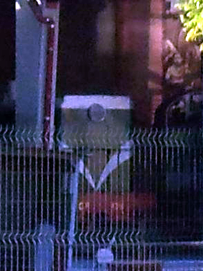 1300 Series locomotive of the Portuguese Railways, in the National Railway Museum, in Entroncamento, Portugal.